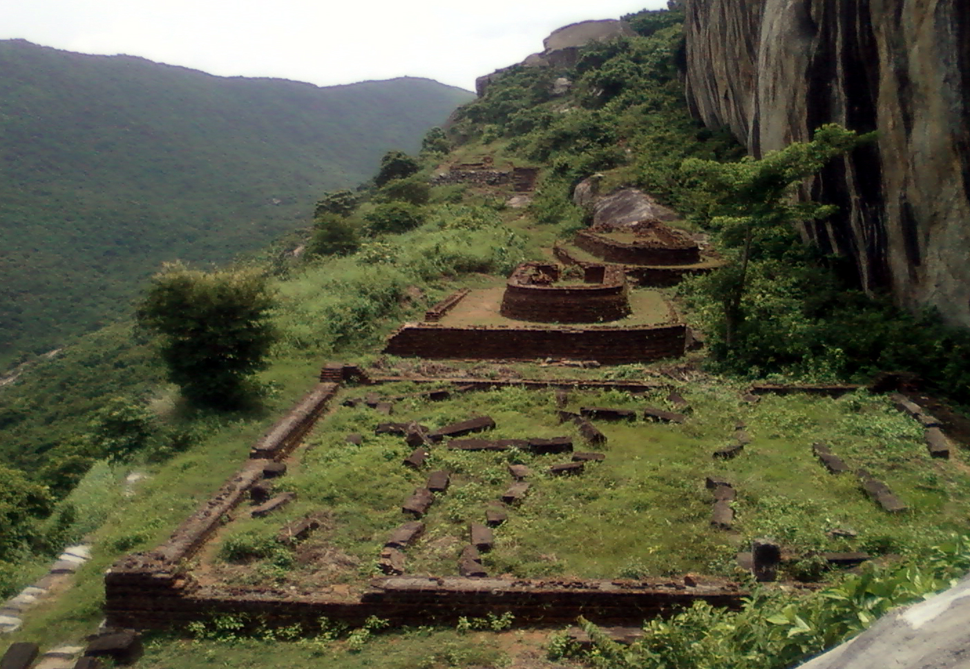 Gurubhaktulakonda (Gurabaktakonda) Buddhist Monastery Remnants at Ramatheertham in Vizianagram District of Andhra Pradesh